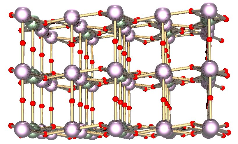 Lattice of U3O8 solid, drawn by cadmium using POVray using public domain data to drive the software used to write the pov file.